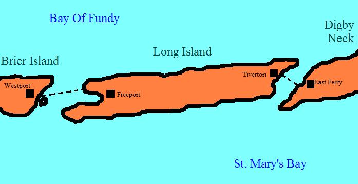 Long Island, Nova Scotia